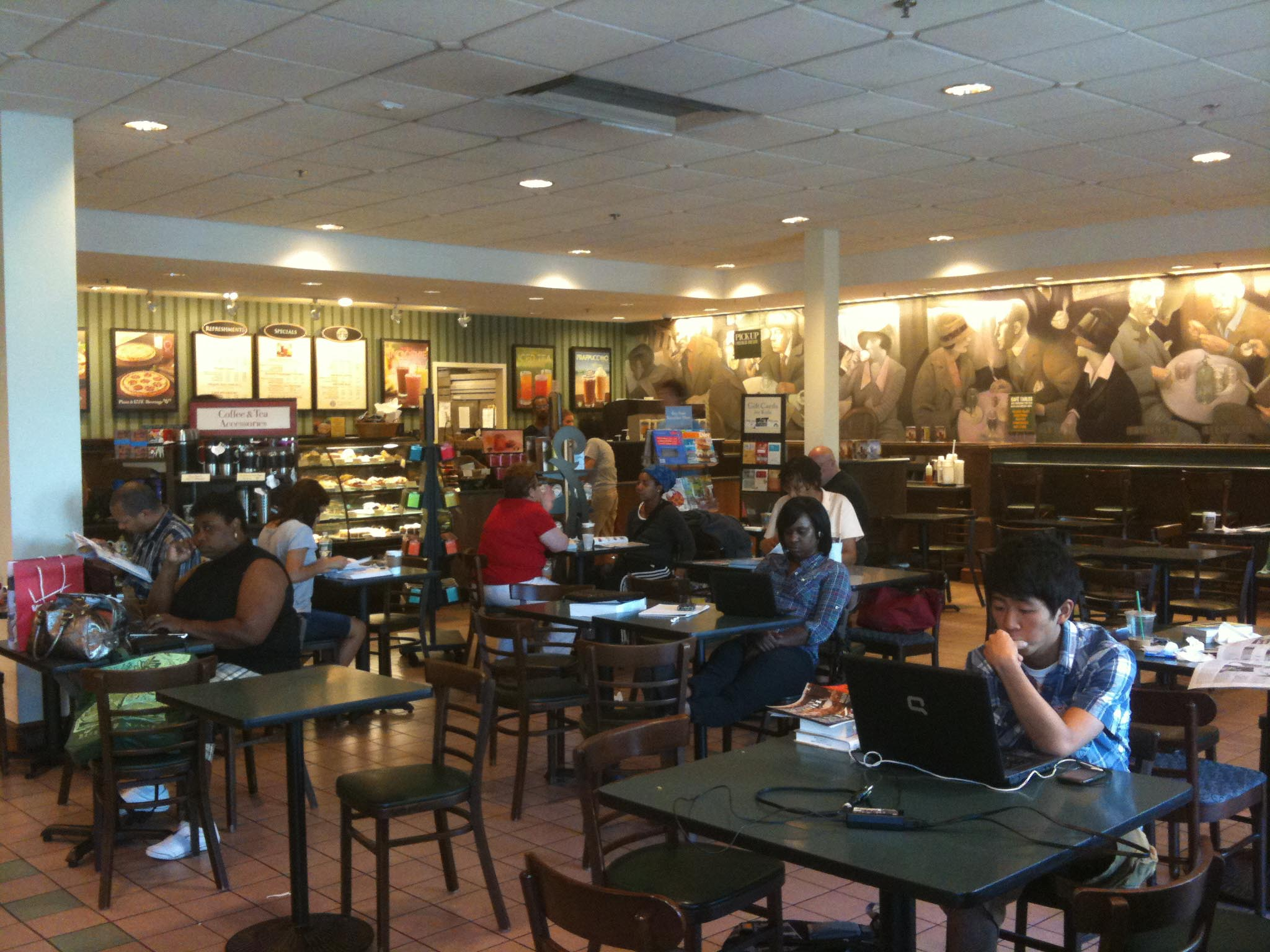 The cafe at the Barnes & Noble in Springfield, New Jersey.Photographed by Luigi Novi. This photo is not in the public domain. It may, however, be used, modified and published for any purpose, free of charge, only if the photographer is properly credited, either by linking the photograph to this page, or with an easily visible credit to the photographer placed near the photo in each instance in which it is used. (See licensing information below.) Publication of this photo without this proper attribution constitutes copyright infringement. If you have any questions, you can contact me on my Wikipedia Talk Page.